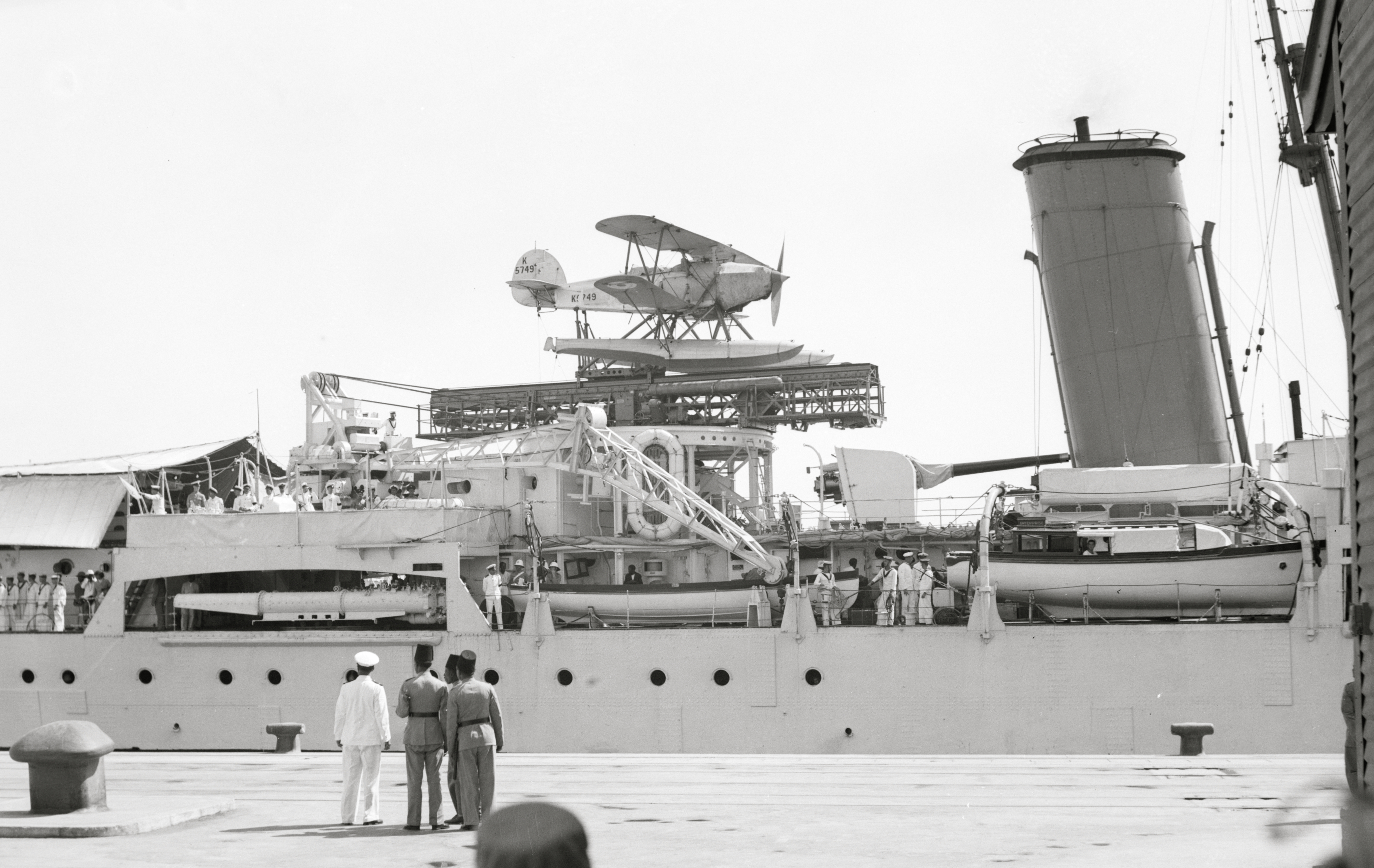 British light cruiser HMS Enterprise in Haifa. Aircraft is a Hawker Osprey with number K5749 Original title: Arrival of the Negus to Haifa Summary: Photo shows the family of Ethiopian Emperor Haile Selassie I arriving at Haifa on the British ship, the H.M.S. Enterprise, May 8, 1936. Note single BL 6-inch Mk XII gun on pedestal mounting, aft of funnel.